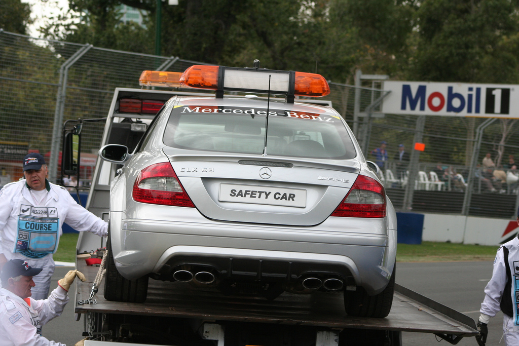 Gee you gotta hate it when the Safety car breaks down. Melbourne GP Friday session